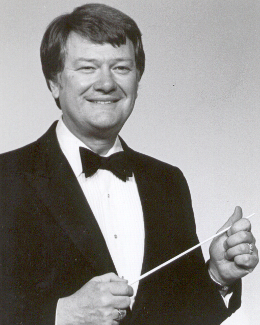 Thomas Tyra, Crane School of Music (ca 1986)